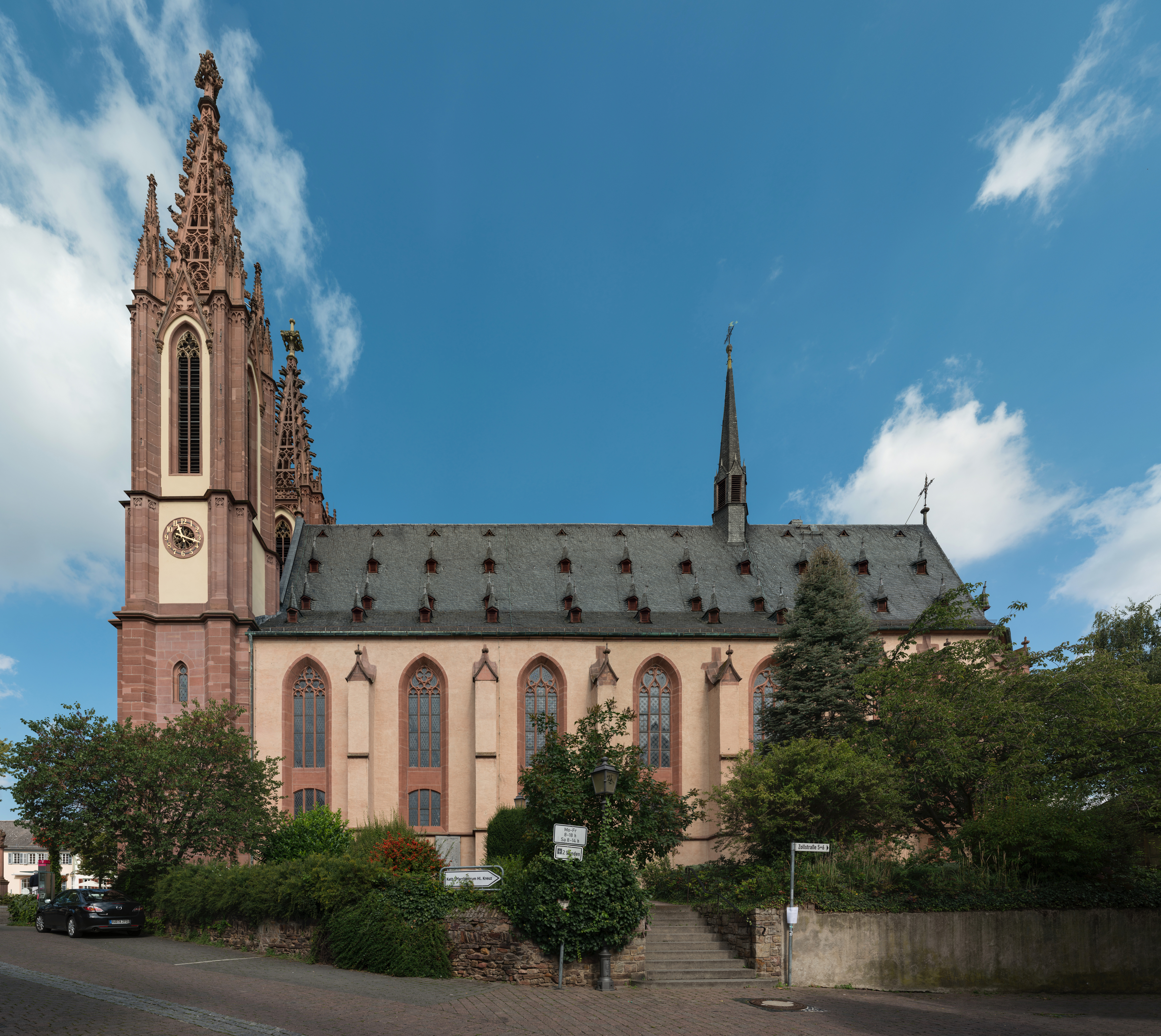 A south view of the Rheingauer Dom as seen from south